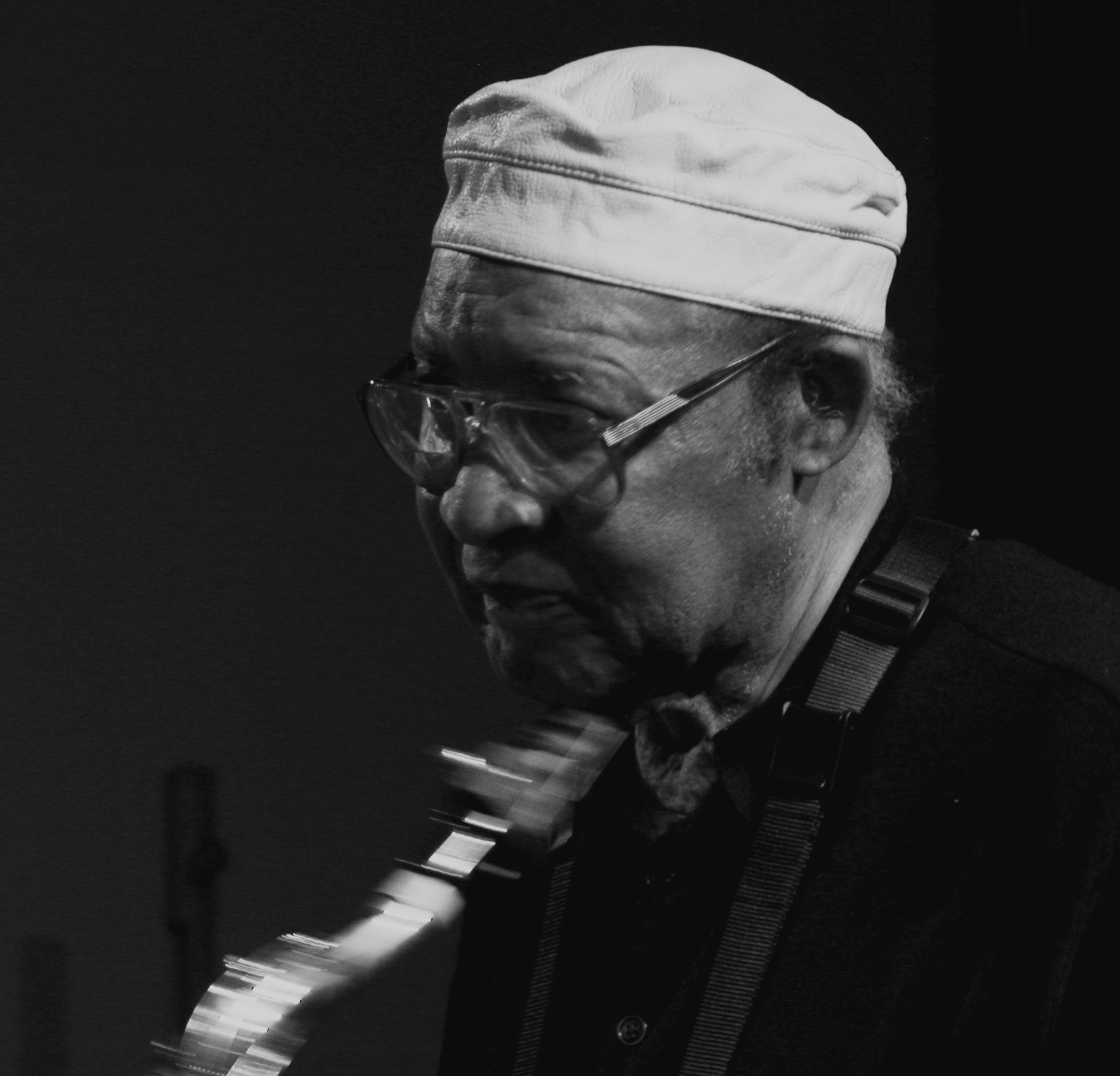 Fred Anderson at the HotHouse in Chicago, March 12, 2005